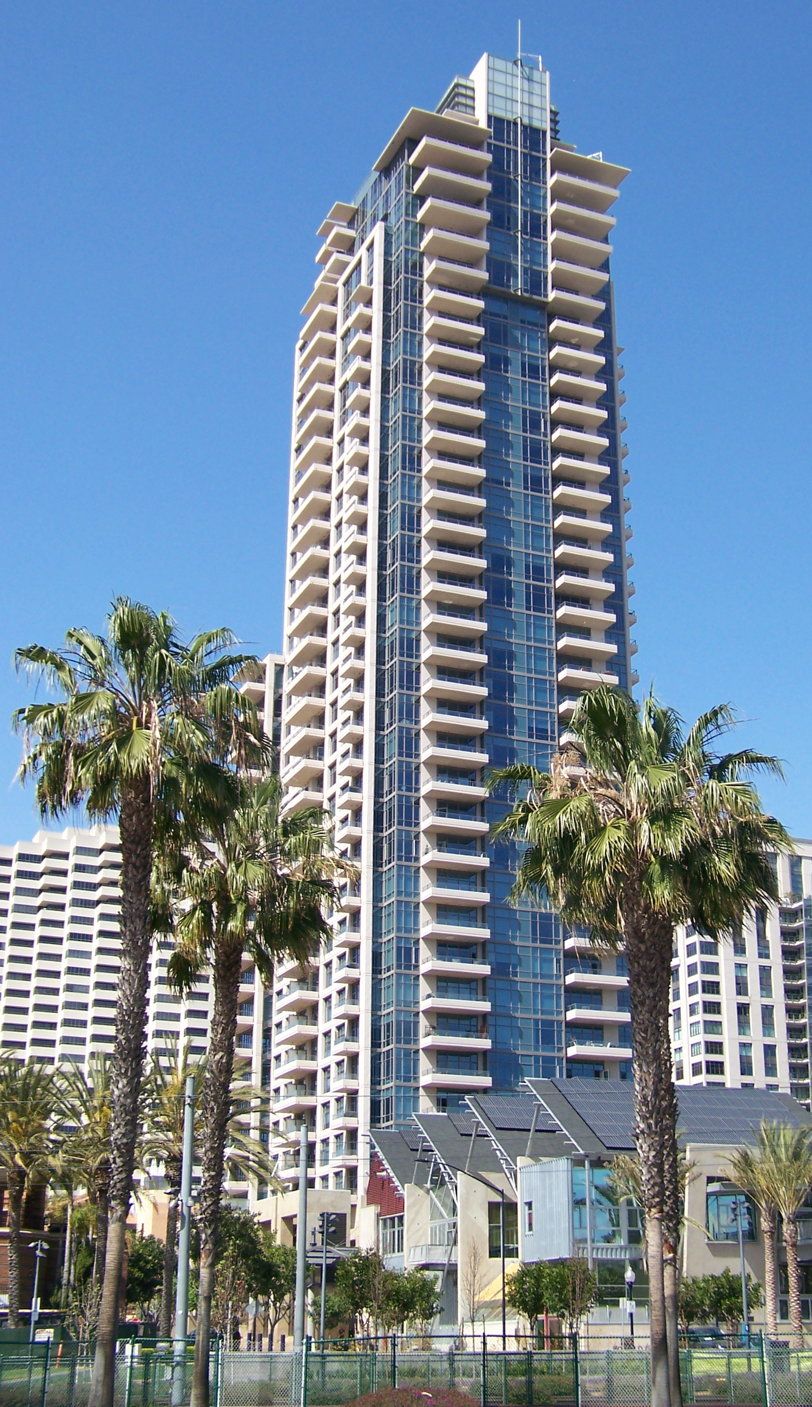 Pinnacle Museum Tower skyscraper in San Diego, California. Construction was completed in 2005.